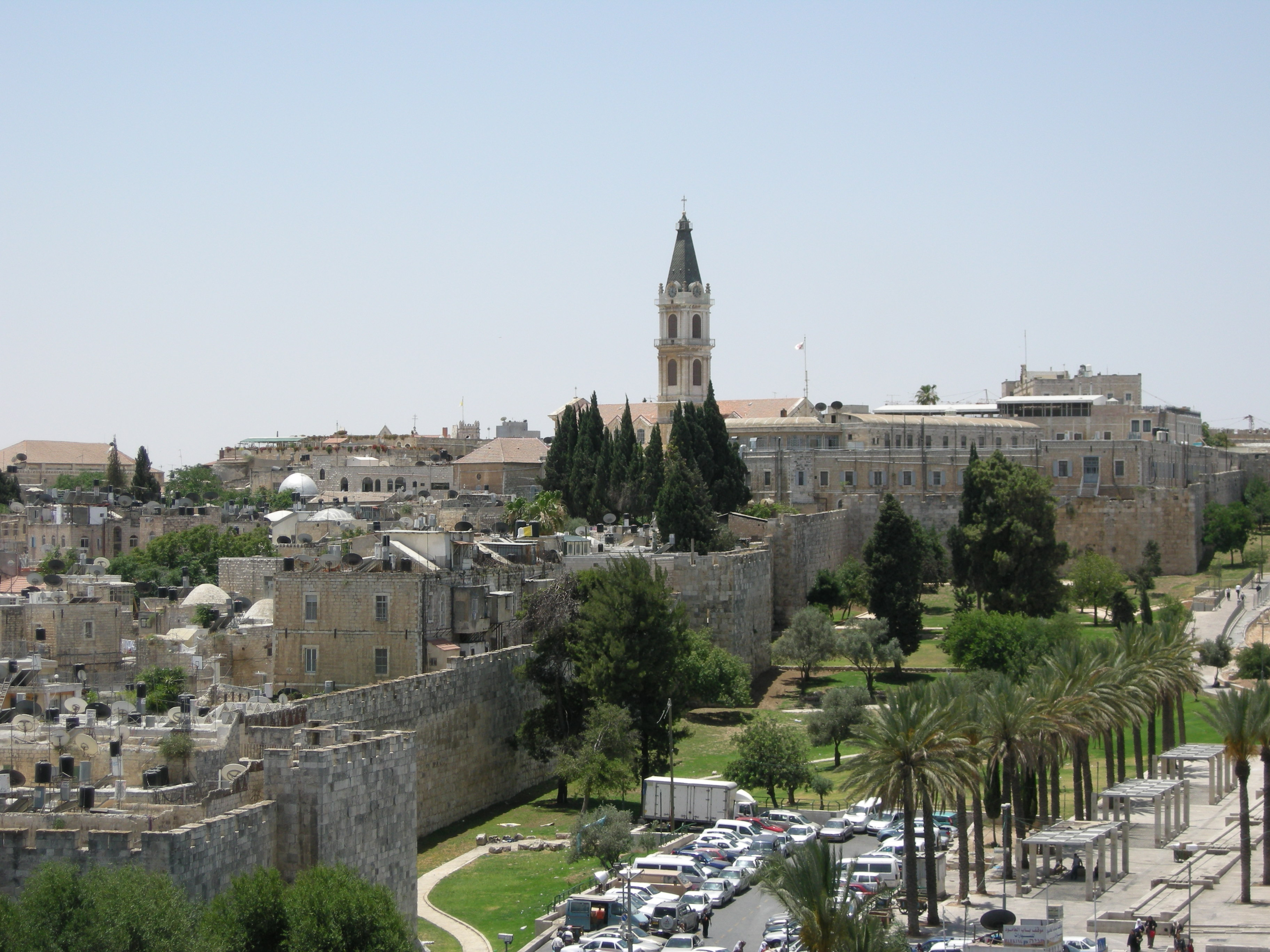 Siur_wikipedia_in__Jerusalem